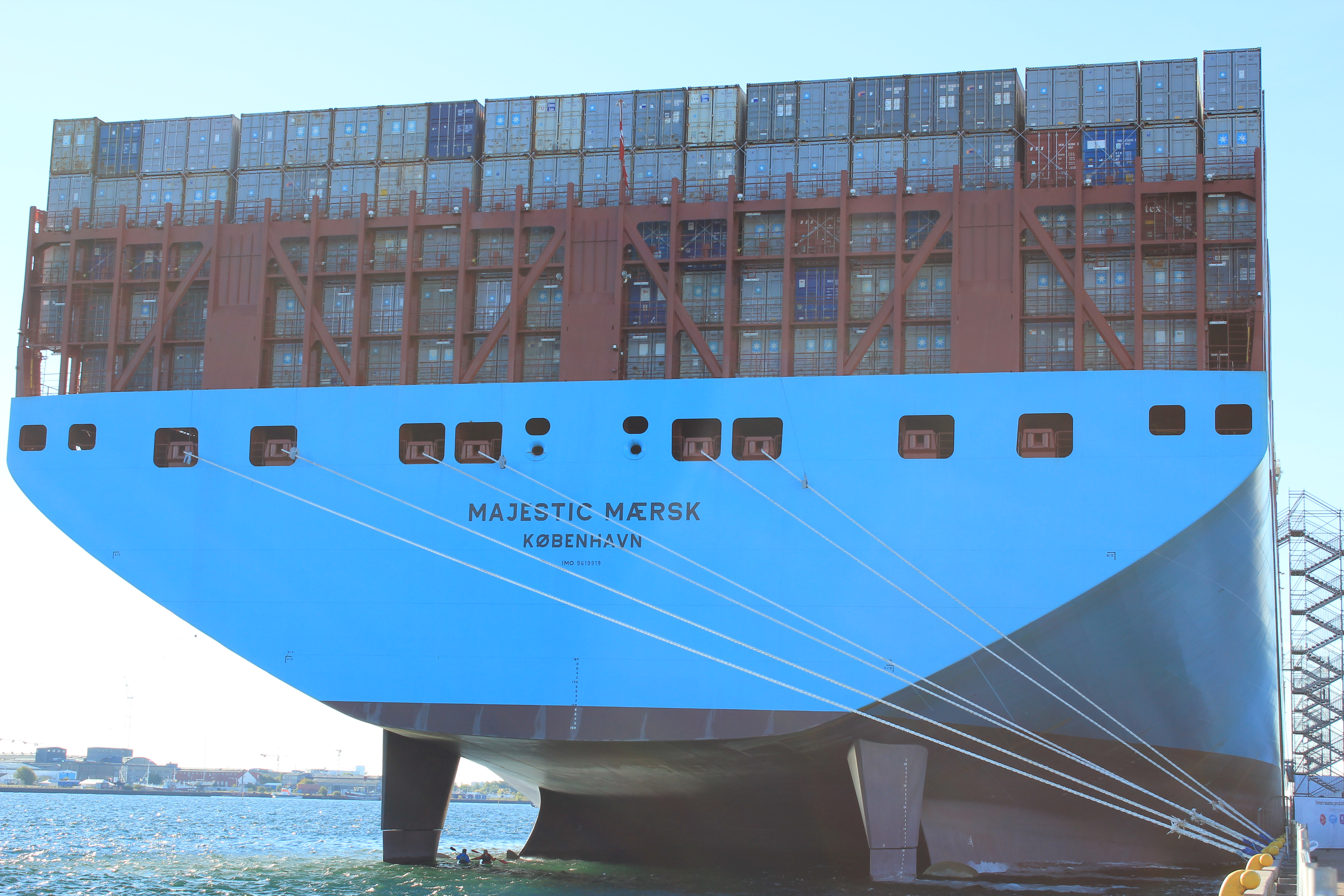 Triple-E container ship Majestic Maersk at Copenhagen's Langelinie, stern